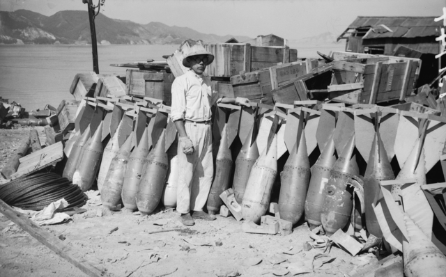 OKUNOSHIMA, JAPAN. 60KG MUSTARD BOMBS, SOME OF THEM LEAKING MAKING THEM DANGEROUS TO HANDLE. WITHOUT DETONATORS BUT WITH THEIR BURSTER CHARGES OF PICRIC ACID IN PLACE, THEY ARE TO BE LOADED ONTO DECOMMISSIONED LANDING SHIPS TANK AND THEN SCUTTLED IN DEEP WATERS OFF THE COAST OF JAPAN. THIS IS PART OF OPERATION LEWISITE, TO REMOVE AND DESTROY POISON GAS (MAINLY MUSTARD AND LEWISITE) FROM THE TOKYO 2ND ARMY ARSENAL).